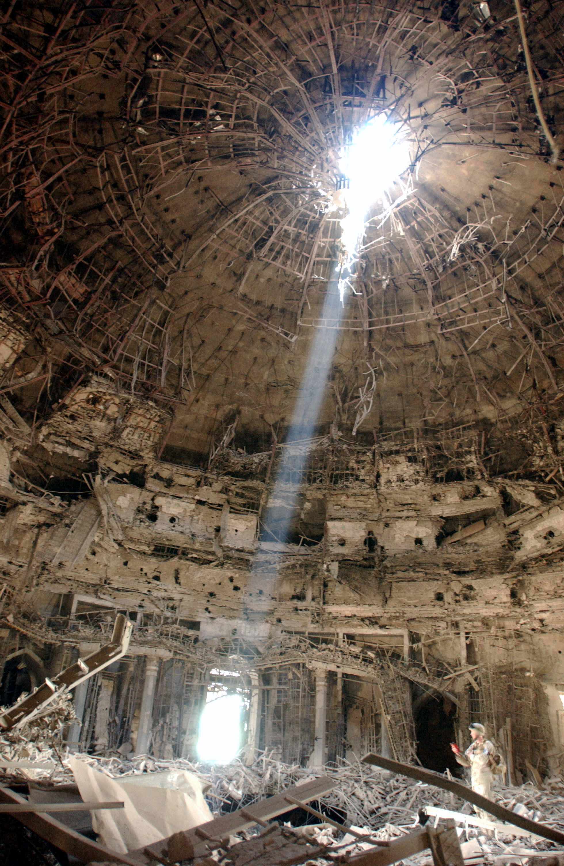 BAGHDAD, Iraq (AFPN) -- A member (bottom right) of the Combined Weapons Effectiveness Assessment Team assesses the impact point of a precision-guided 5,000-pound bomb through the dome of one of Saddam Hussein's key regime buildings here. The impact point is one of up to 500 the team will assess in coming weeks. (U.S. Air Force photo by Master Sgt. Carla Kippes)